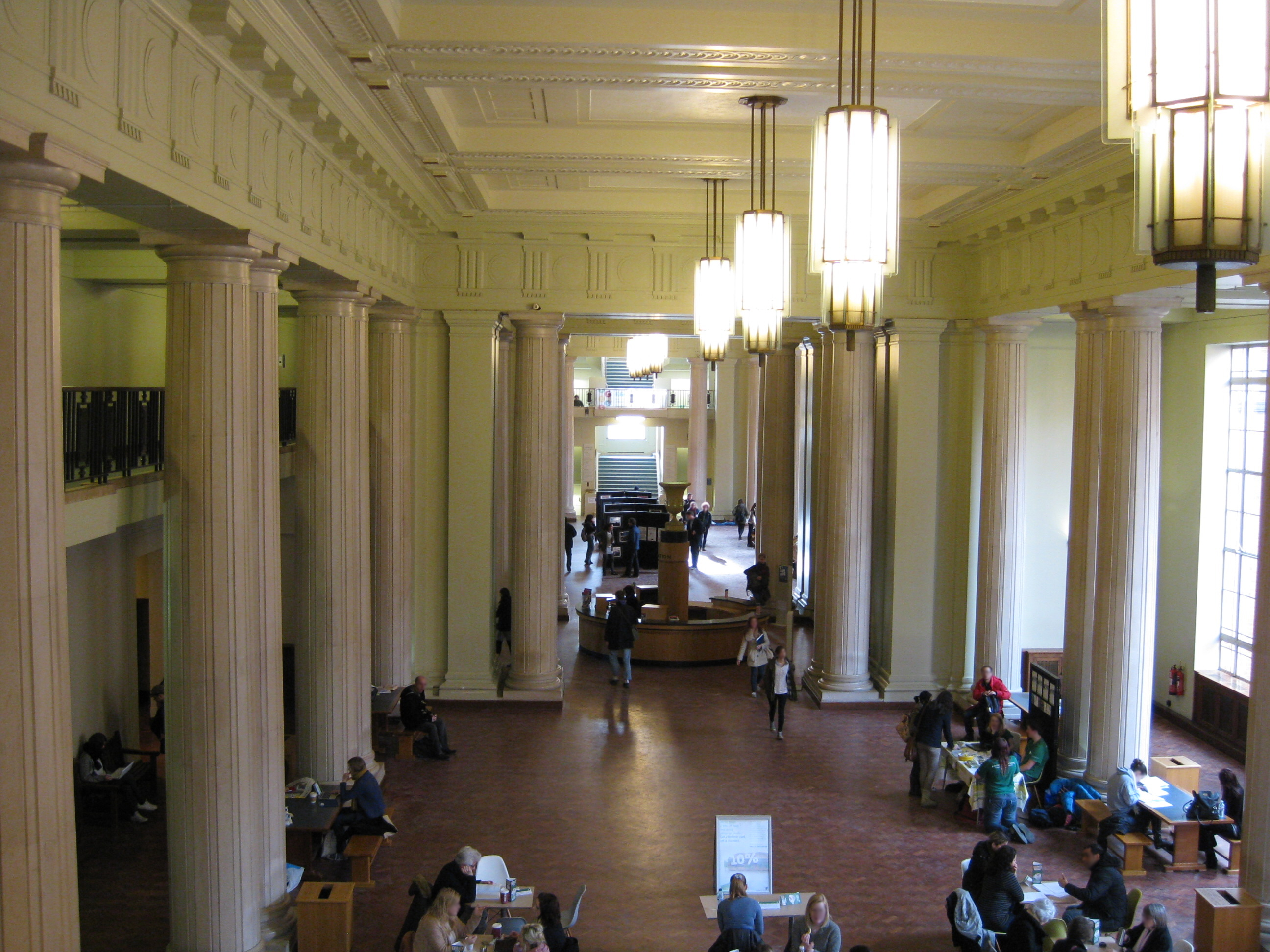 Parkinson Court: the main open area inside the Parkinson Building, University of Leeds.